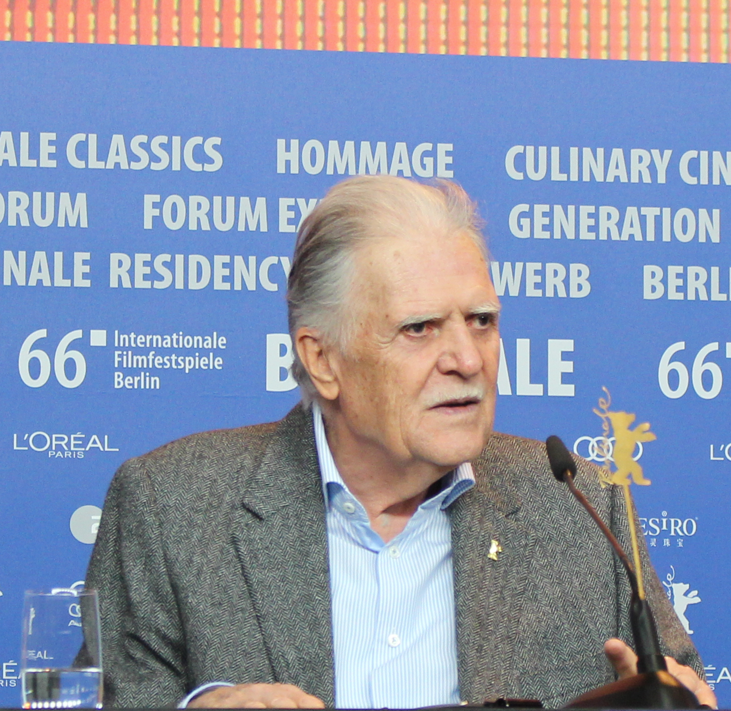 Michael Ballhaus at a press conference of the Berlinale 2016